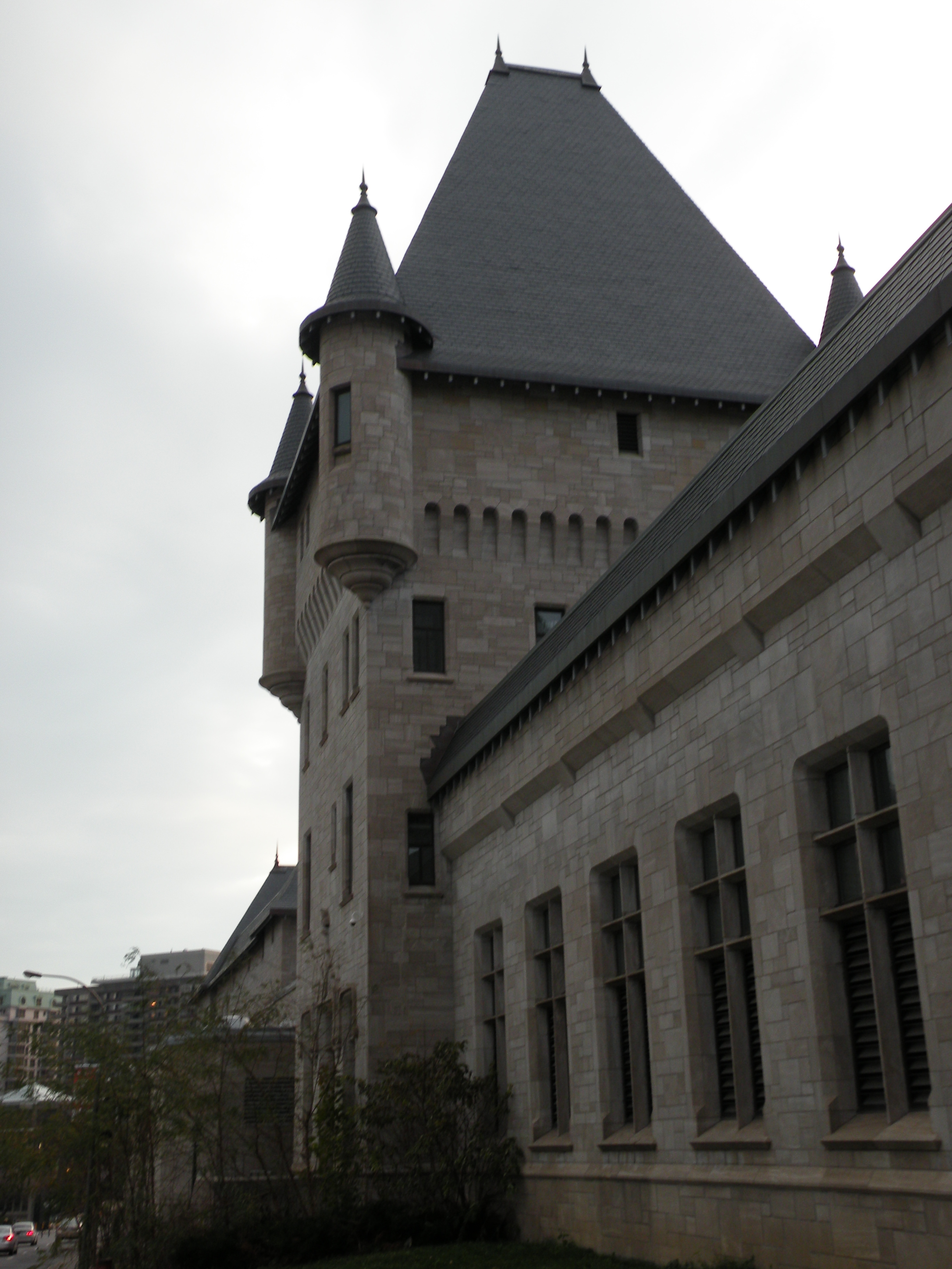 McTavish reservoir.